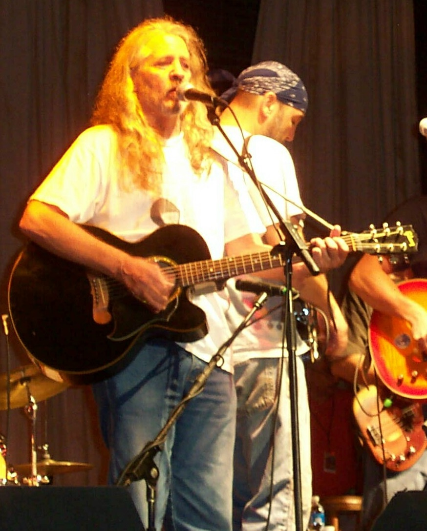 Bob Childers